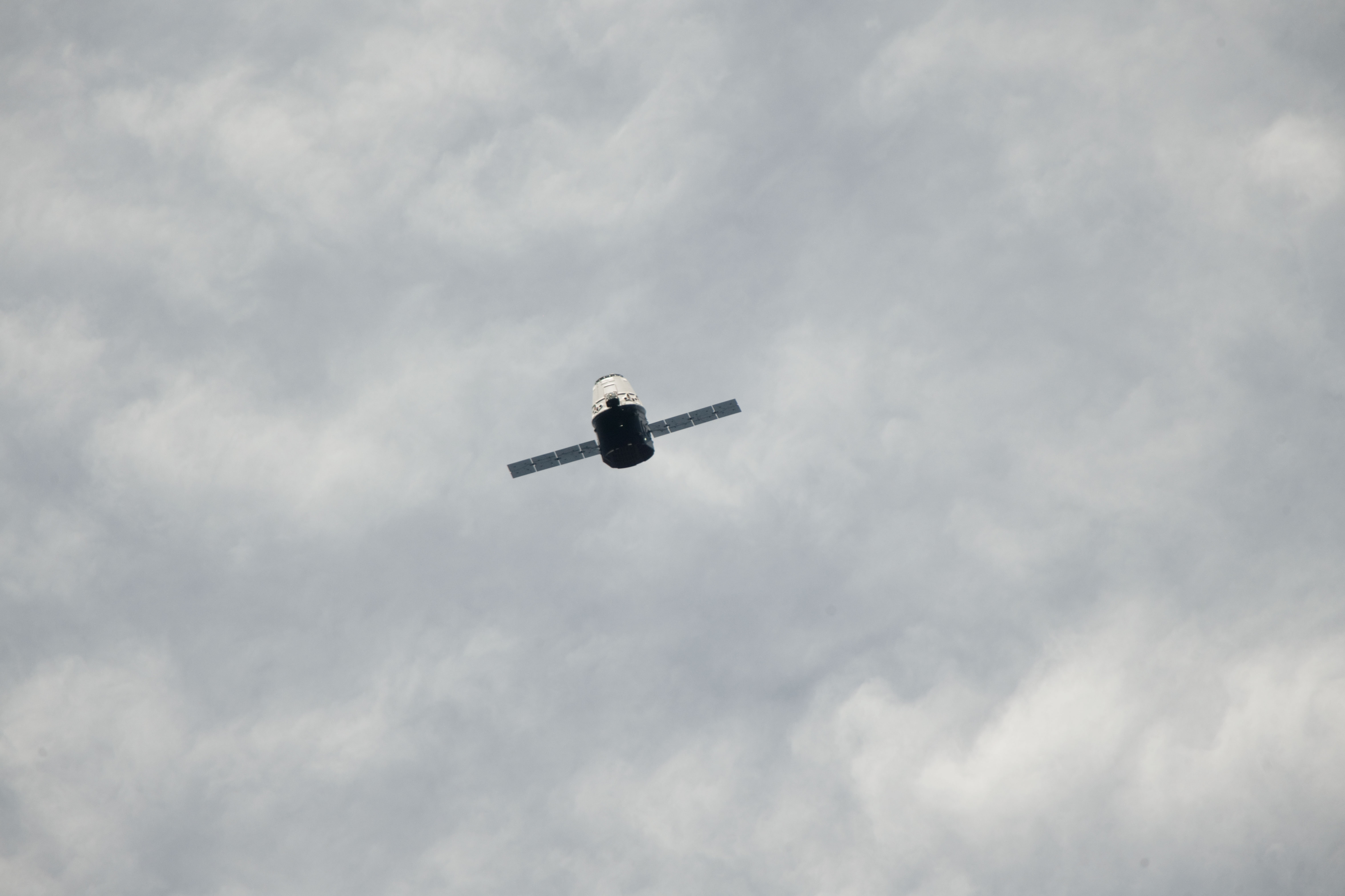 ISS031-E-067328 (24 May 2012) --- The SpaceX Dragon commercial cargo craft approaches the International Space Station on May 24, 2012 for a series of tests to clear it for its final rendezvous and grapple on May 25. At 3:58 a.m. (EDT), Dragon performed a height adjust burn to bring it to a path 2.4 kilometers below the station. During this "fly-under," Dragon established UHF communication with the station using its Commercial Orbital Transportation Services (COTS) Ultra-high frequency Communication Unit (CUCU). Dragon performed a test of its Relative GPS system, which uses the relative positions of the spacecraft to the space station to determine its location. On May 25, Expedition 31 Flight Engineers Don Pettit and Andre Kuipers will use the Canadarm2 robotic arm to grapple the supply ship about 8:06 a.m., with the berthing to the Earth-facing side of the station's Harmony node following about 11:20 a.m. Dragon is scheduled to spend about a week docked with the station before returning to Earth on May 31 for retrieval. Image was taken with a very large handheld telescopic lens by an astronaut aboard ISS.